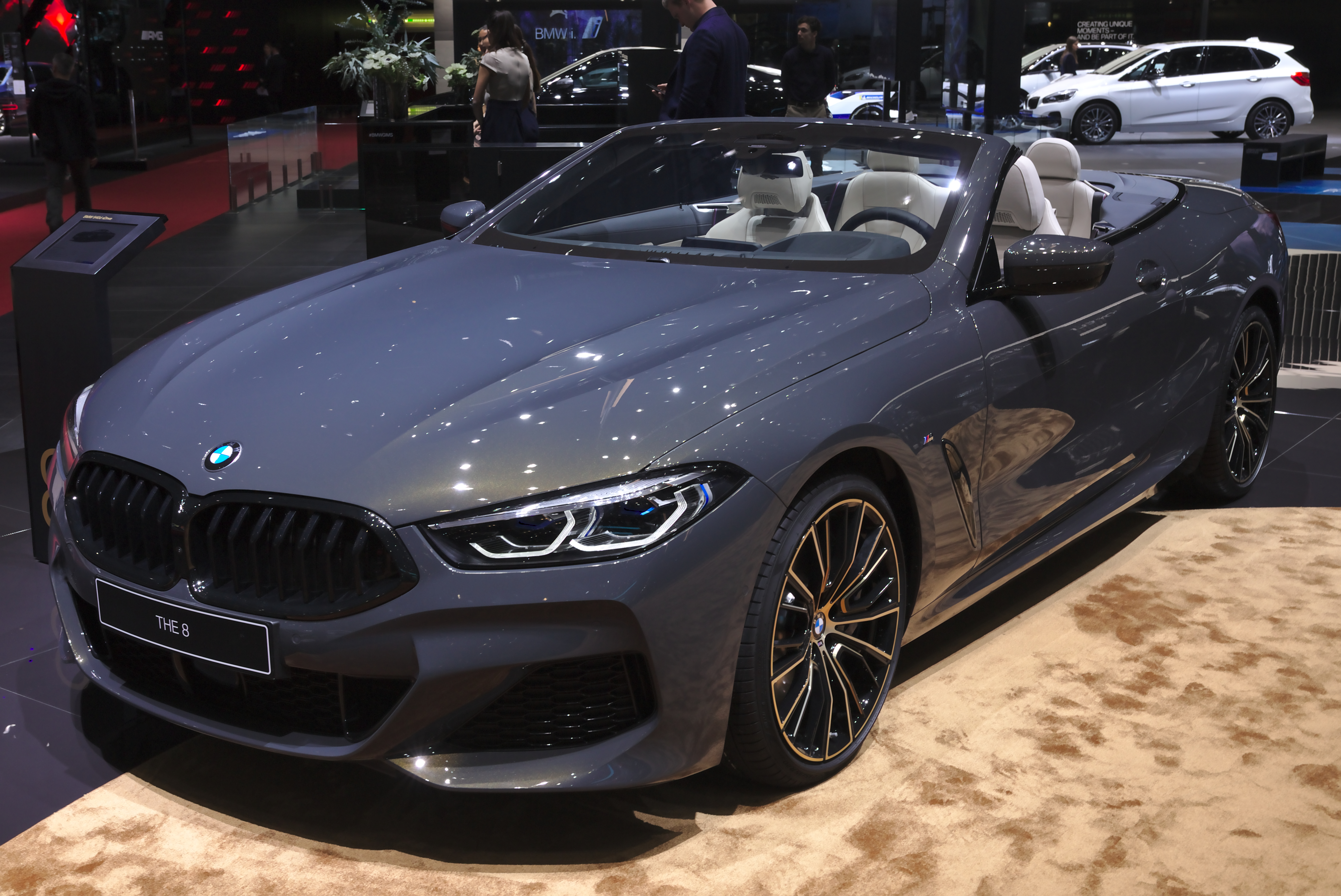 BMW 840d Cabrio at Geneva Motor Show 2019